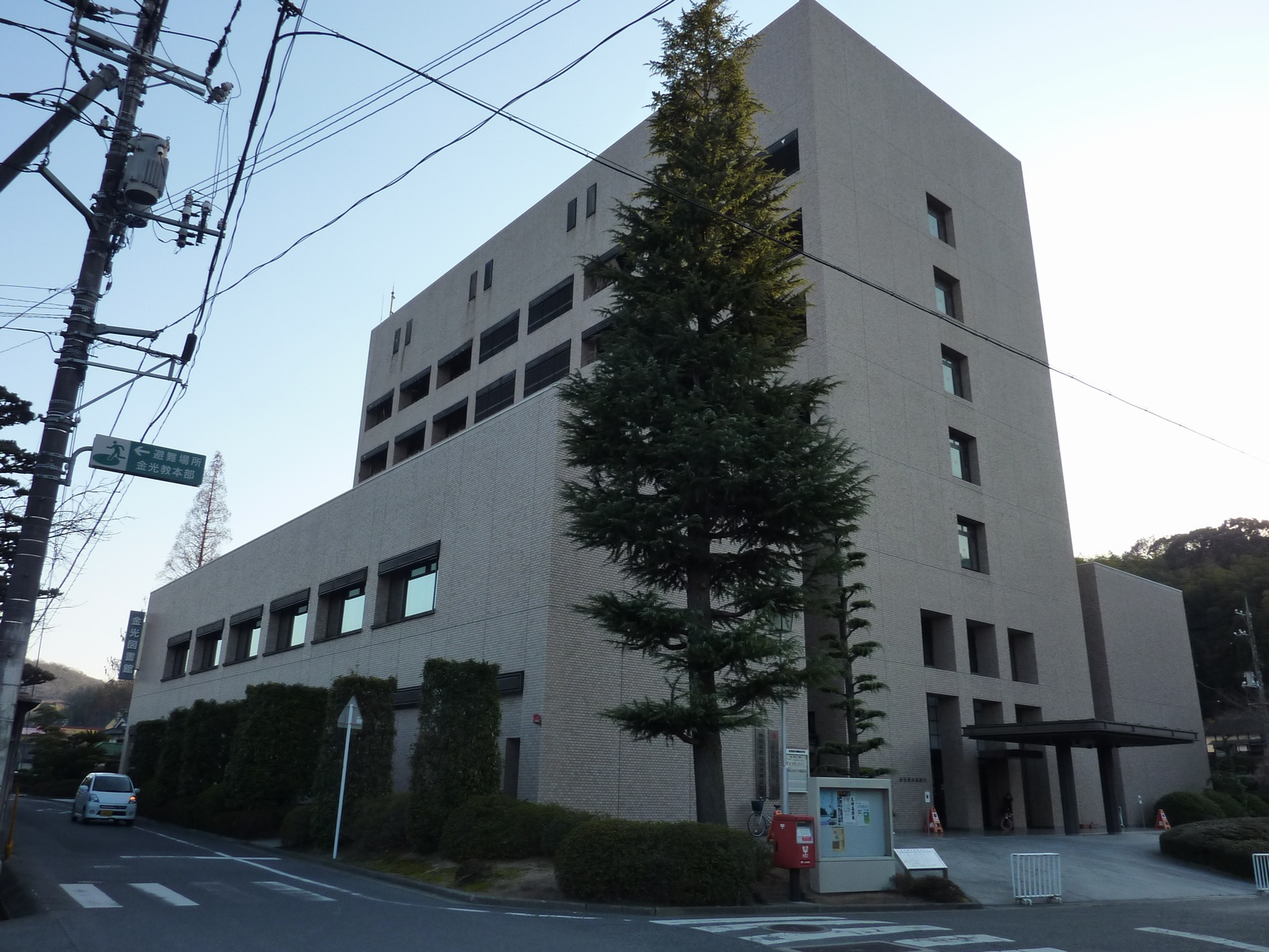 Konkokyo Headquarters Synthesis Office (Asakuchi City, Okayama, Japan)